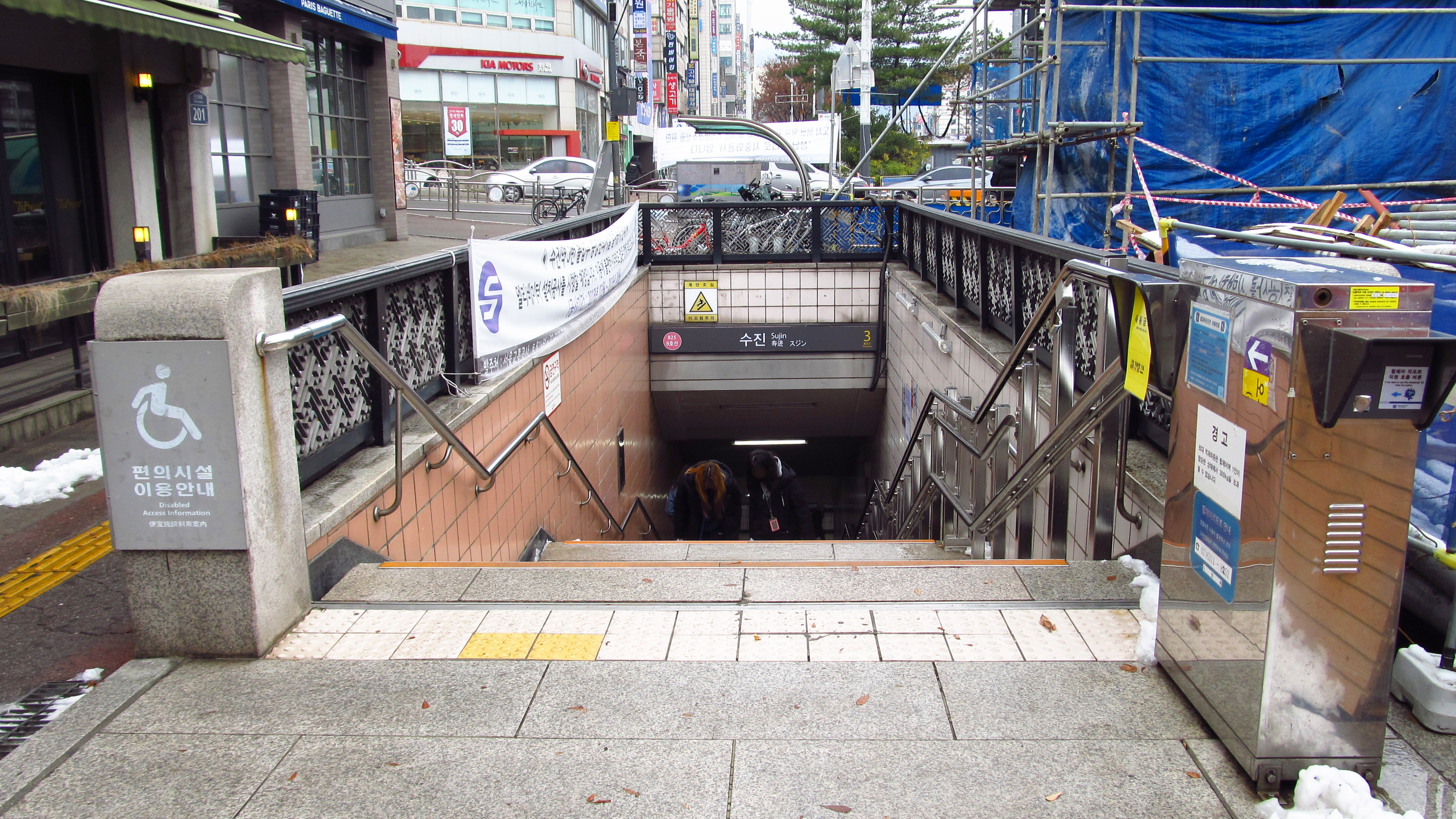 The no.3 entrance to Sujin Station on Seoul Subway Line 8 in Seongnam city, Gyeonggi-do(province), Republic of Korea(South Korea)